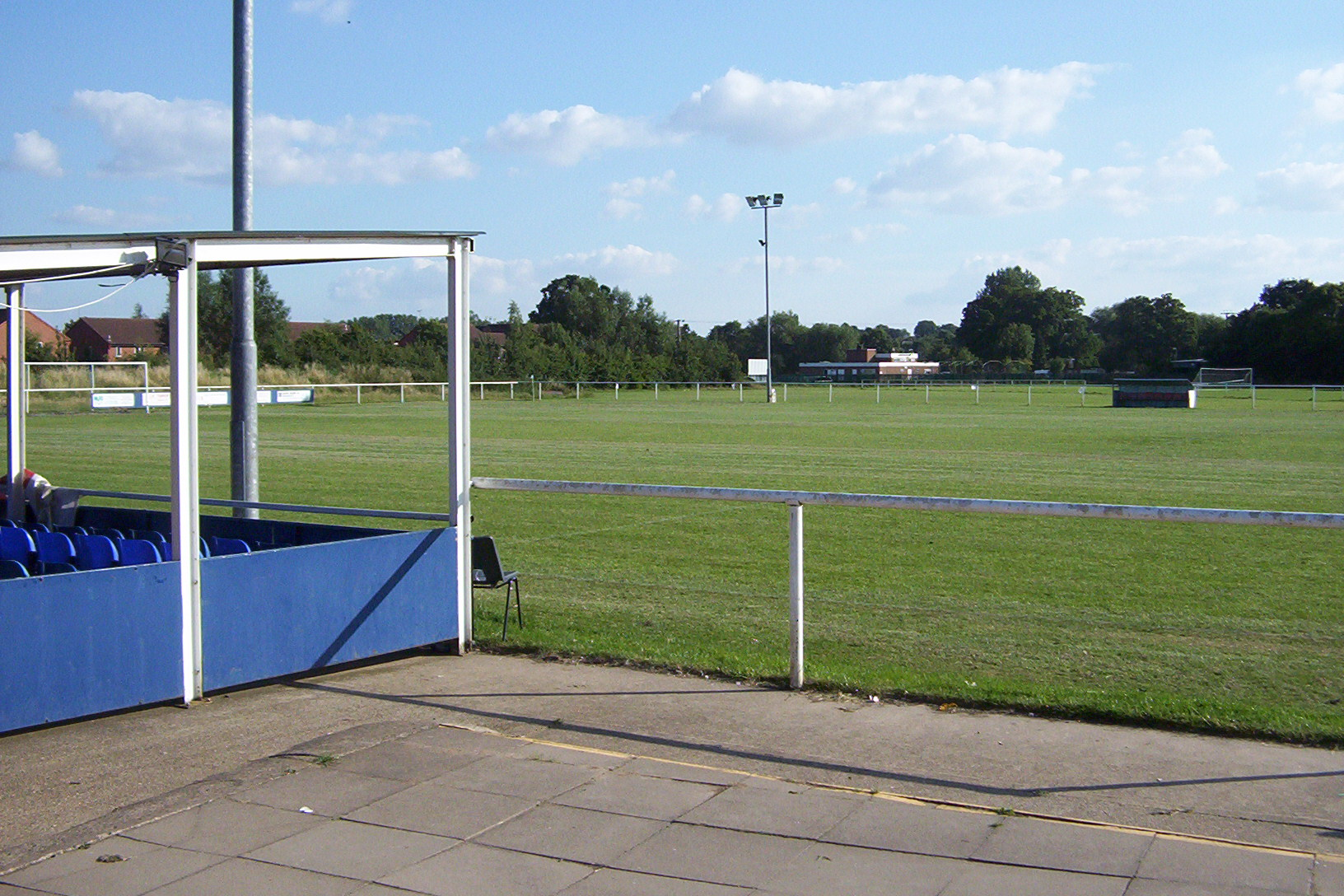 The Beehive, home of Studley F.C., photographed by my good self today, July 26 2008